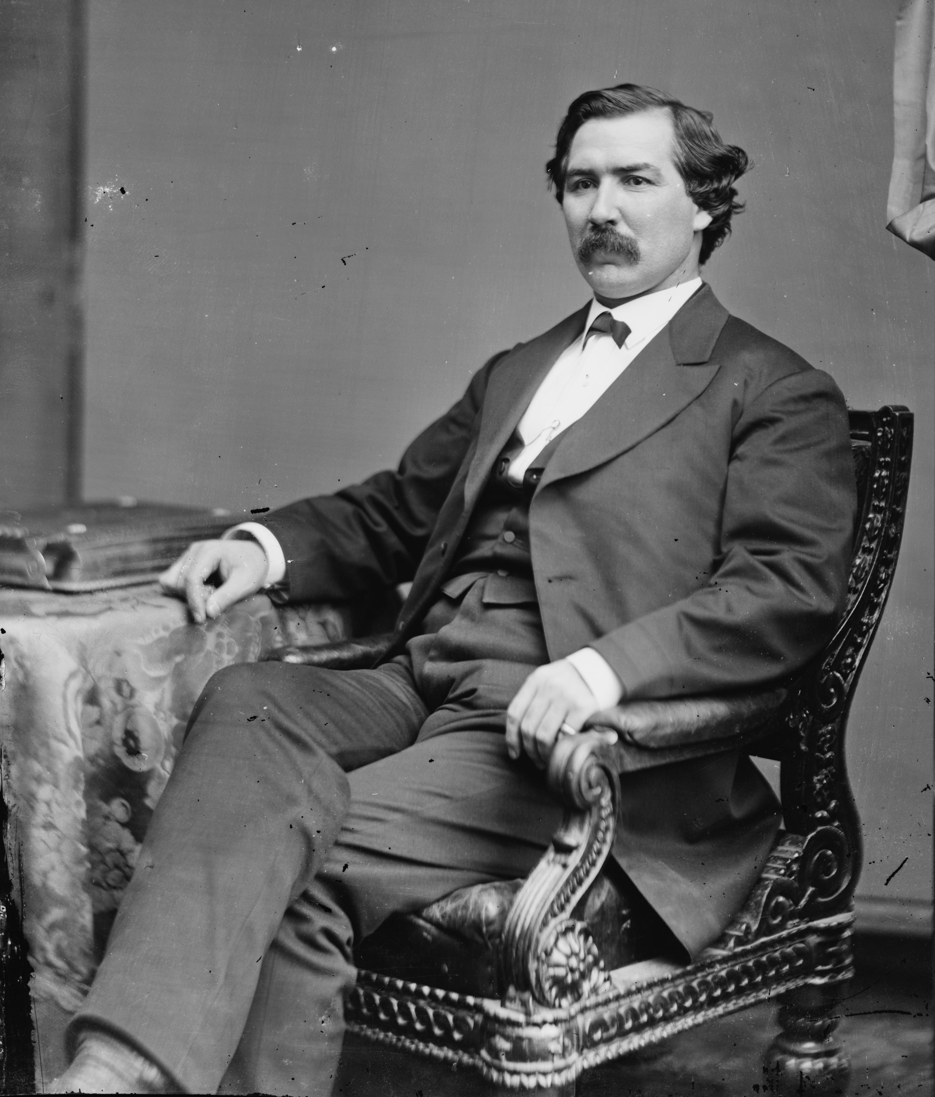 Thomas W. Osborn. Library of Congress description: "Hon. Thomas Ward Osborn of Fla."